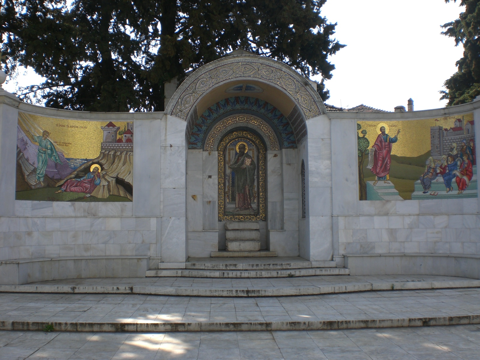 Monument that is supposedly the site where St Paul preached in Veria